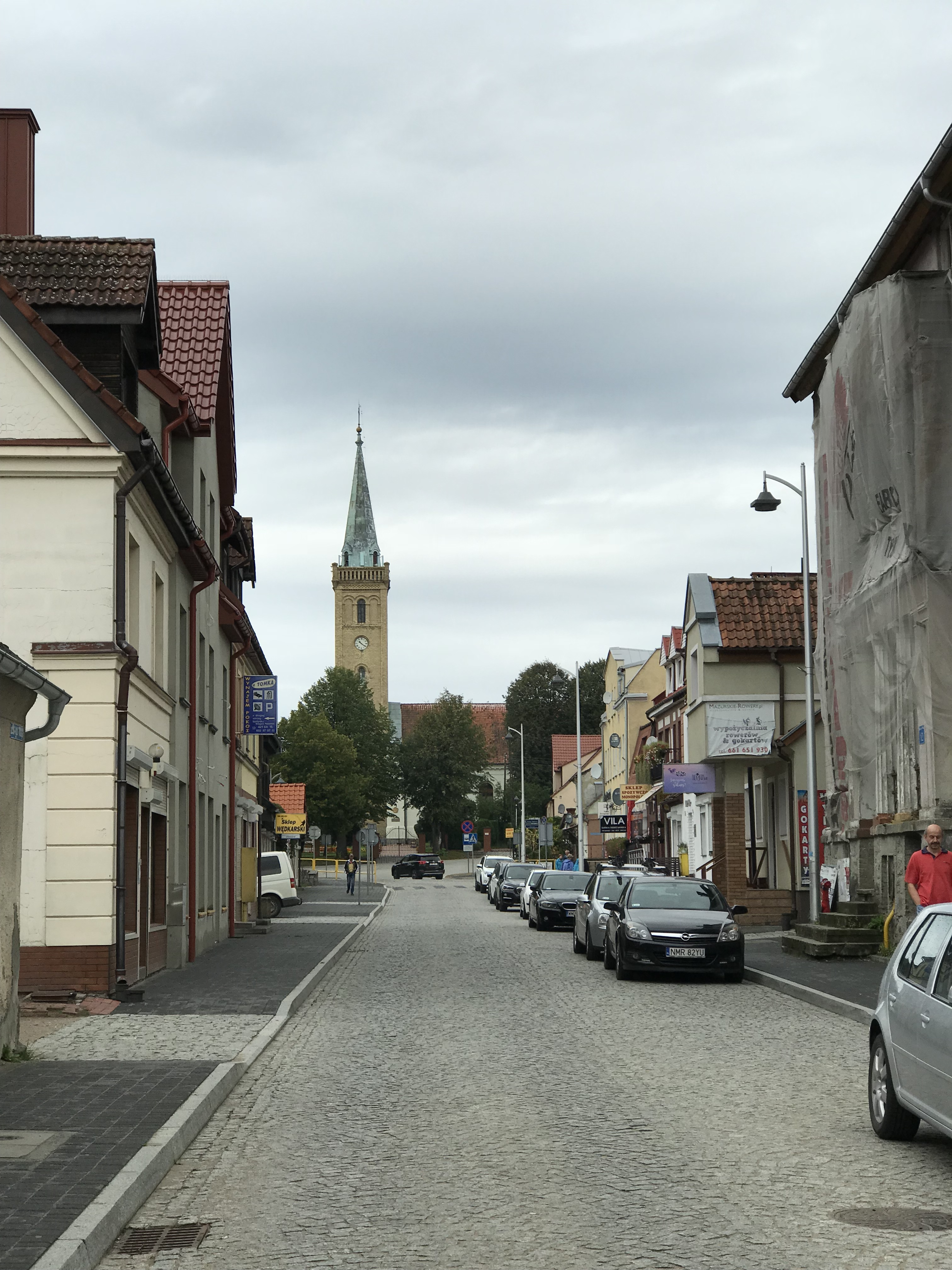 3 Maja street in Mikołajki